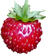 A wild strawberry